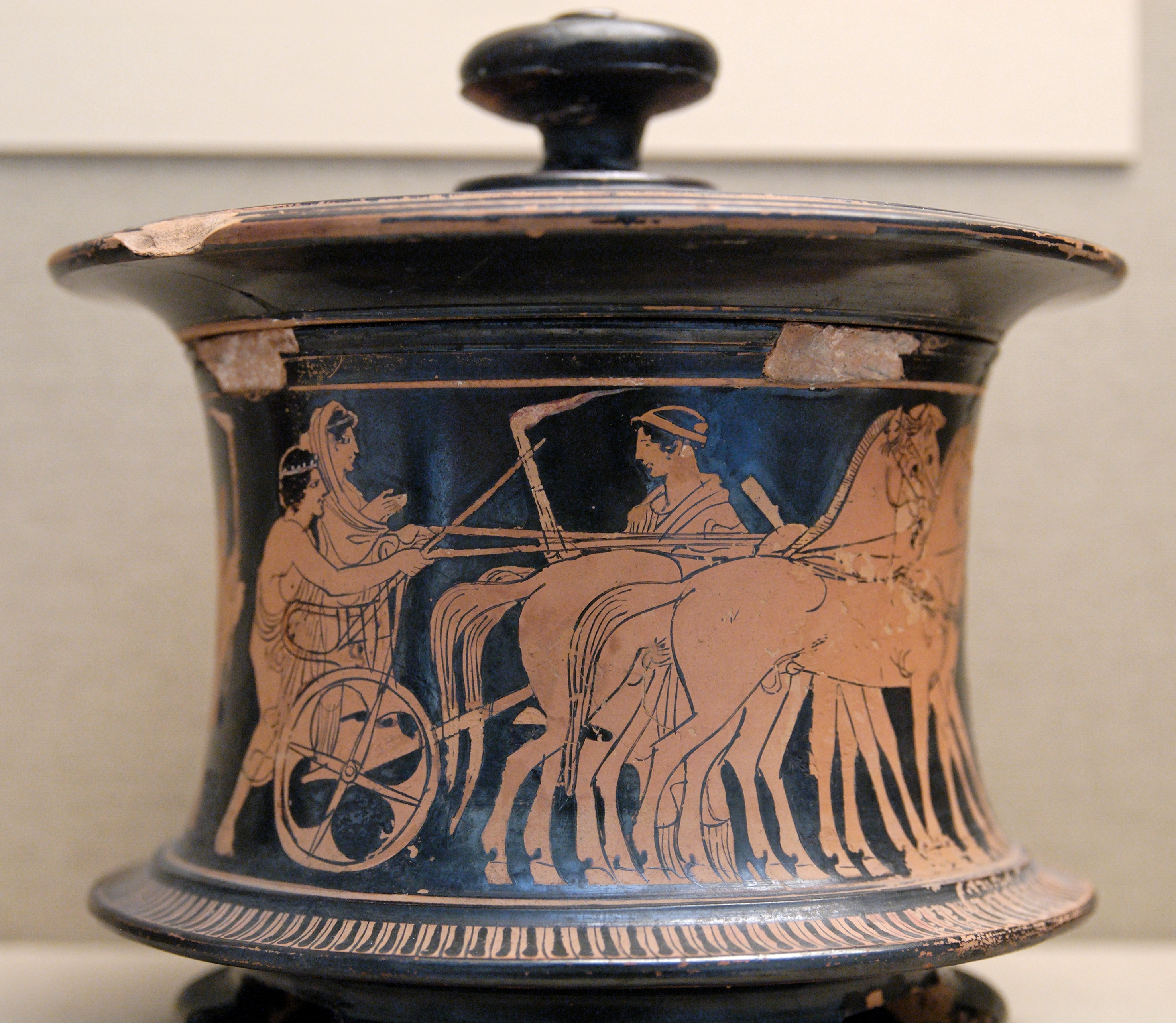 Marriage procession: the bride is driven in a chariot from her parent's home to that of her husband. Detail from an Attic red-figure pyxis, 440-430 BC.